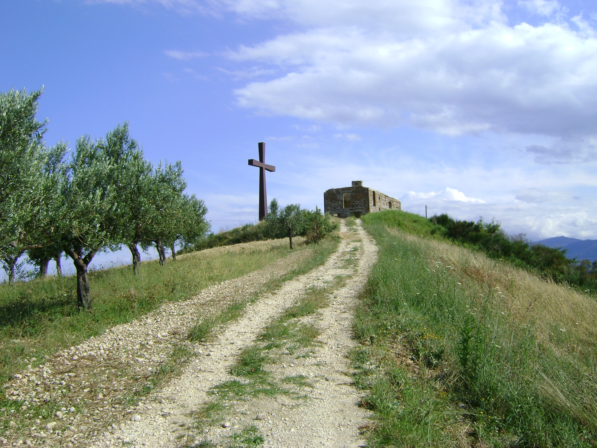 The facade of the church of S. Onofrio, now in ruins, Lanciano, province of Chieti, Abruzzo